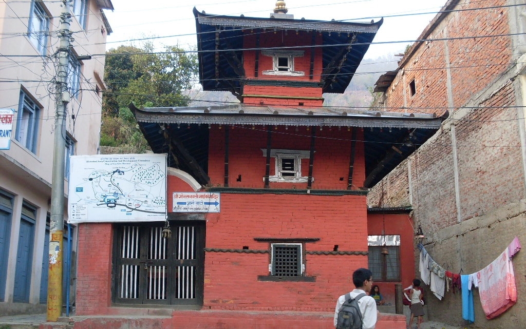 Gorkha temple in front of palace